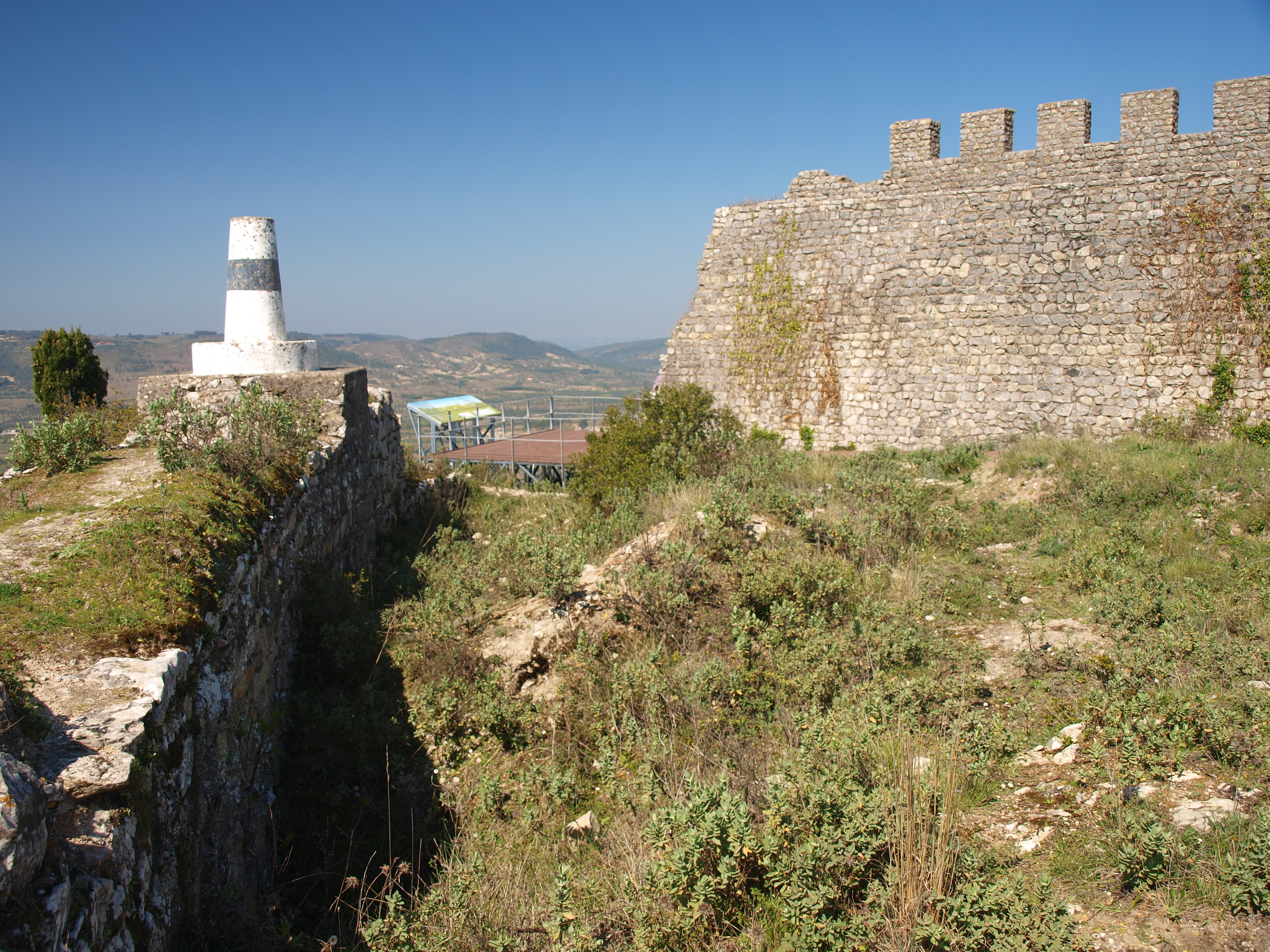 Castle of Germanelo, Rabaçal, Penela, Coimbra, Portugal, and its trig point.